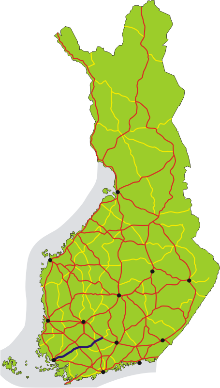 Map of the main road (highway) 10 in Finland, shown in dark blue. The other 1st class main roads (numbers 1–29) are red, 2nd class main roads (numbers 40–98) yellow. Black dots show the 12 biggest urban areas.